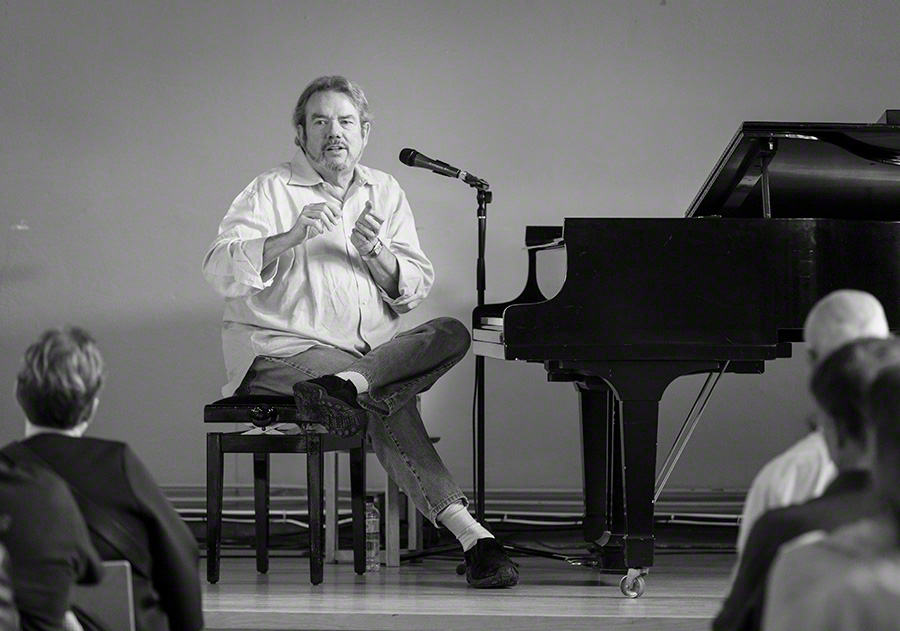 Masterclass med Jimmy Webb at Deichmanske bibliotek. The event is part of Oslo Jazzfestival in Oslo and took place on 20. August 2016.